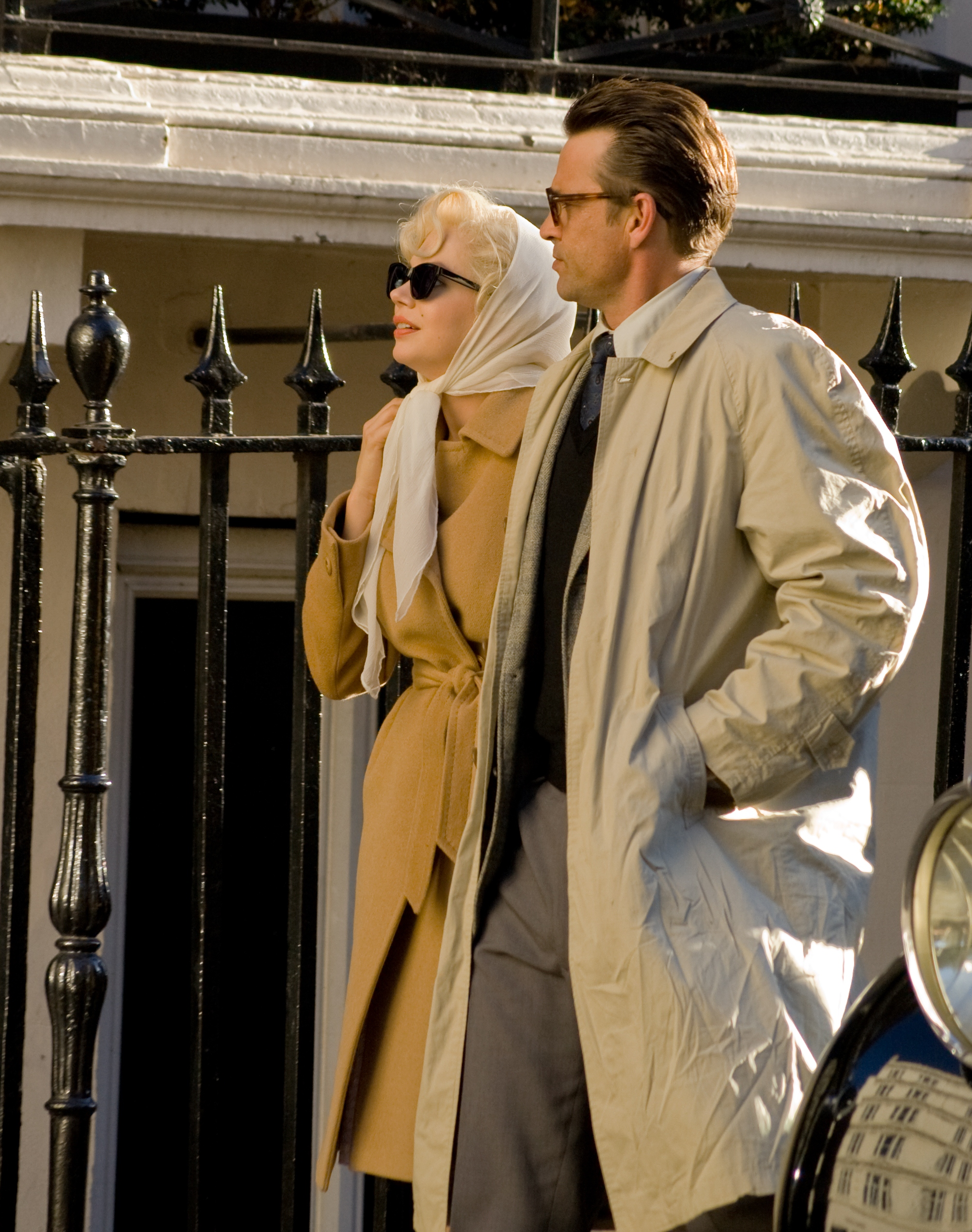 Michelle Williams and Dougray Scott as Marilyn Monroe and Arthur Miller respectively. Taken by David McKears on the film set of My Week with Marilyn, which was being filmed in London in October 2010.